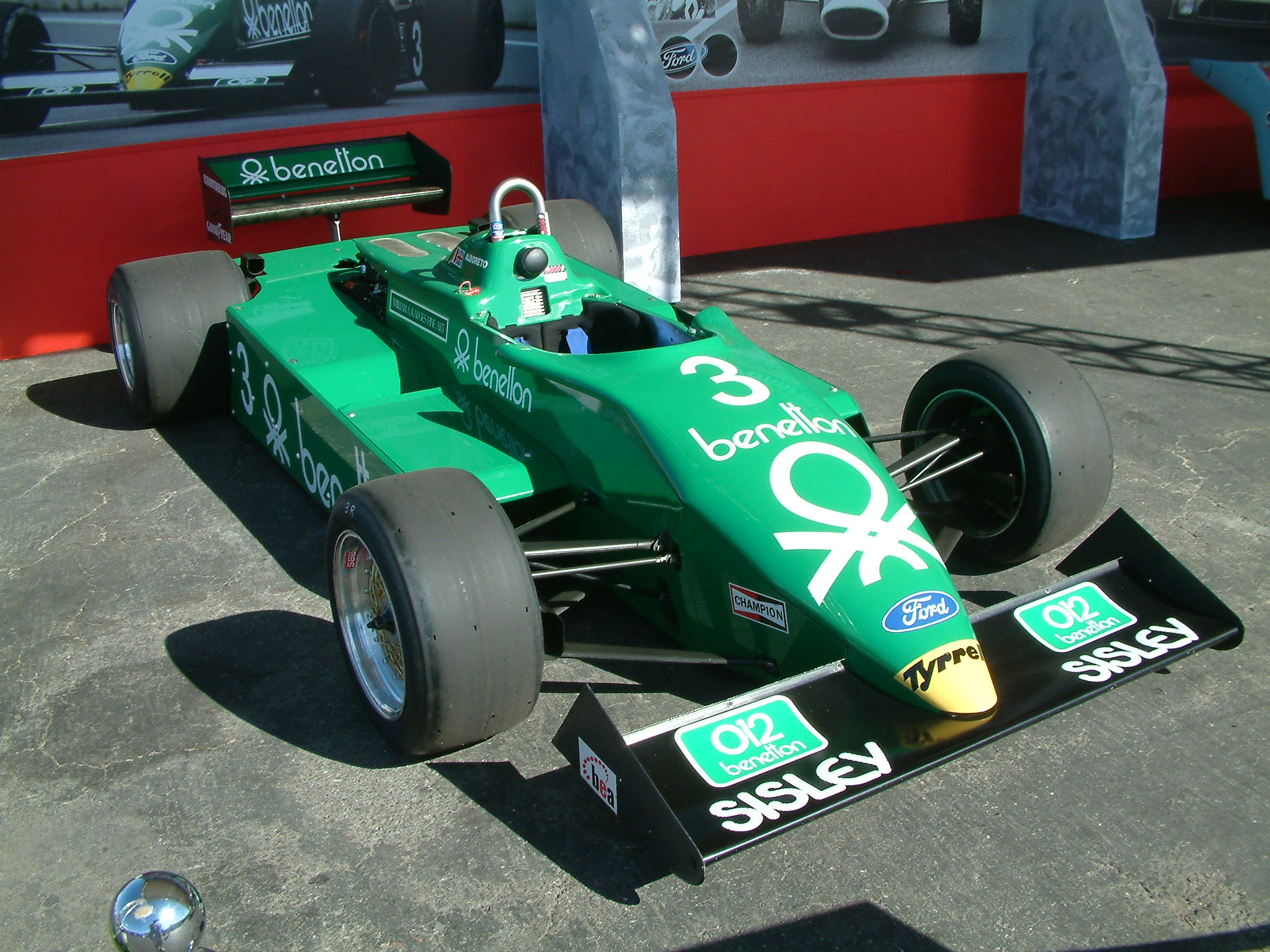 The Tyrrell 011 Formula One car, with 1983 livery, on display.